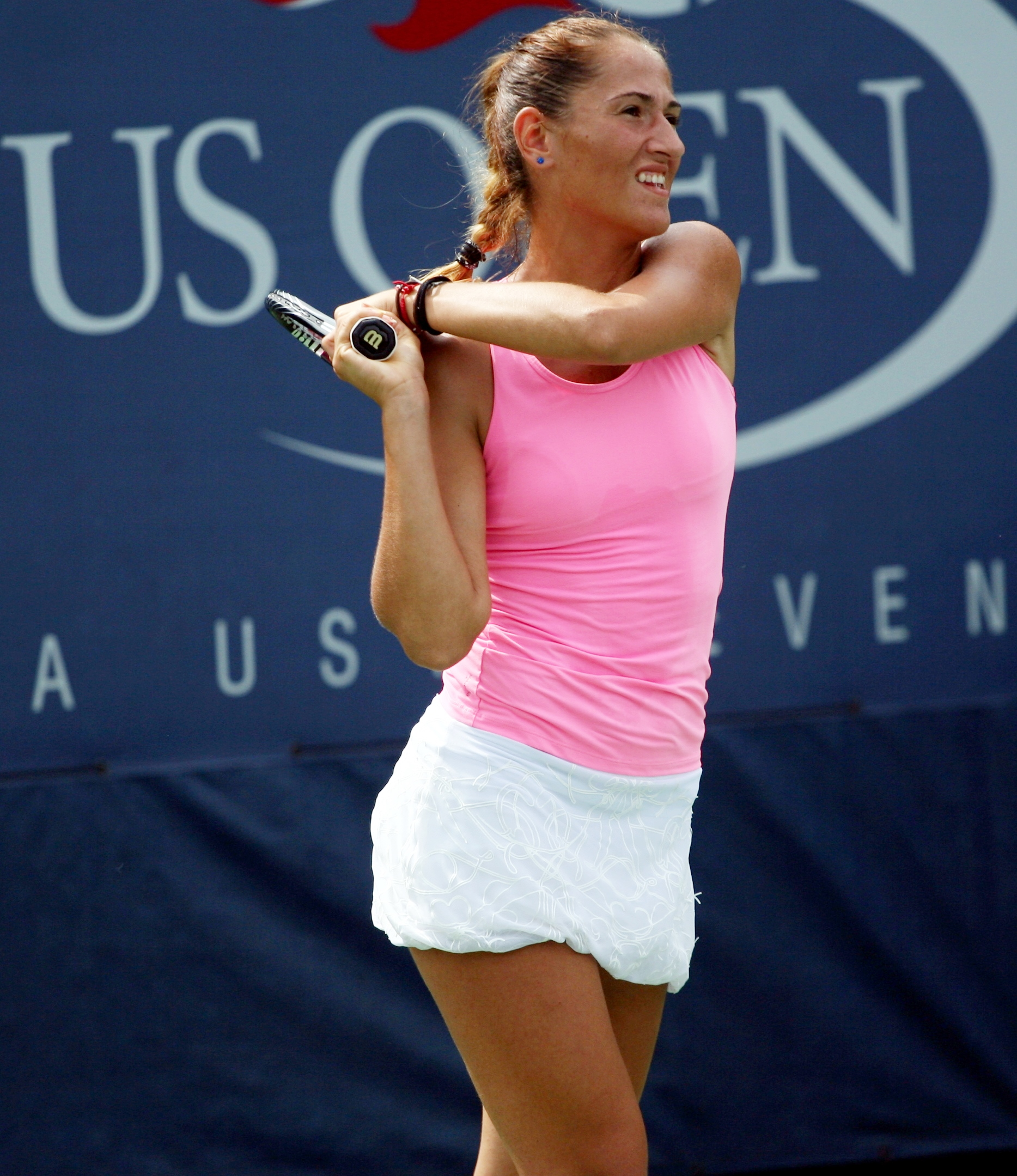 Alexandra Cadanțu at the 2013 US Open, Friday, August 30 2013